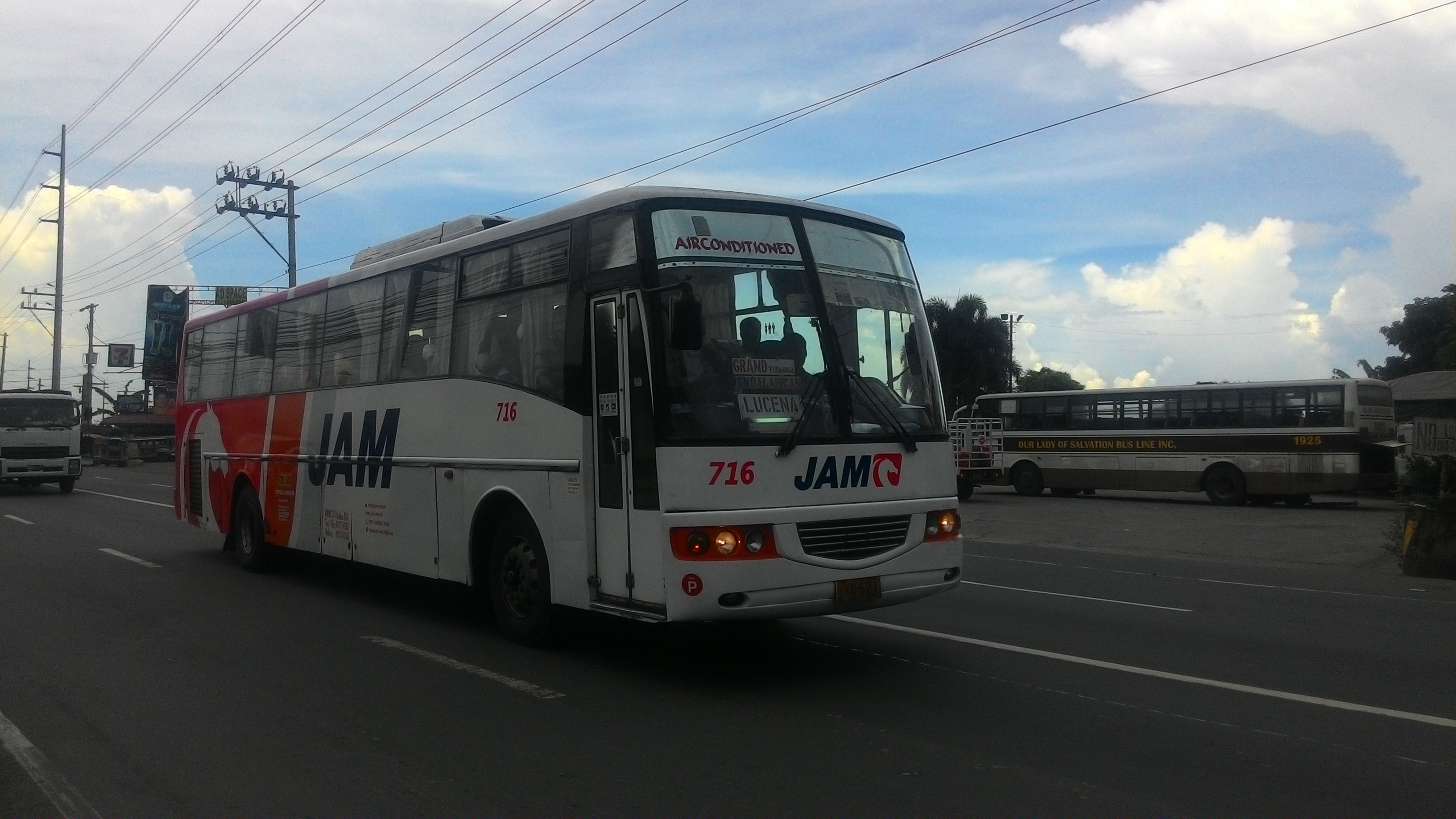 A JAM Transit bus bound for Lucena.